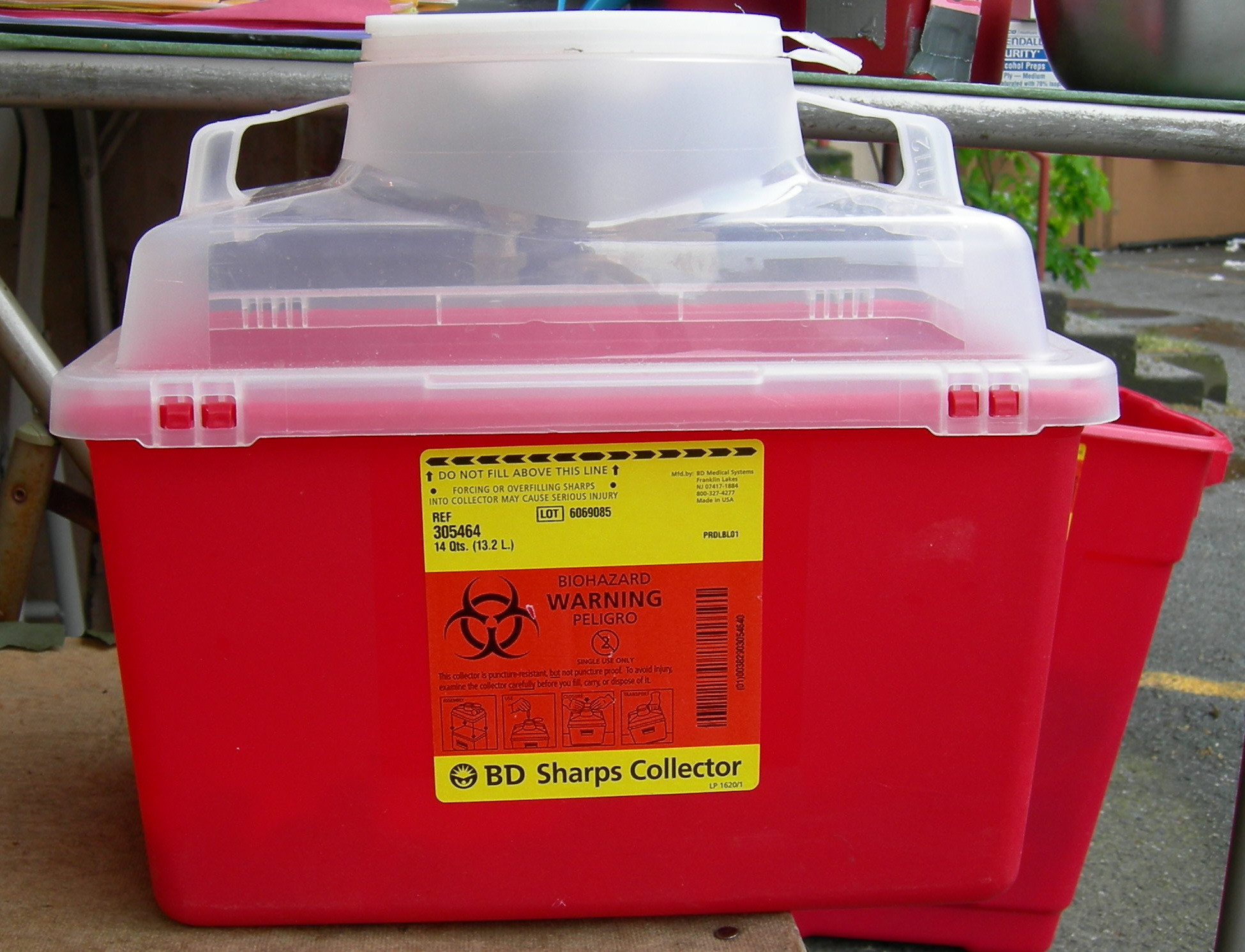 Sharps container (for safe disposal of hypodermic needles). Photographed at Street Outreach Services needle exchange, University District, Seattle, Washington. (The container would not normally be sitting on a chair; it was placed there to facilitate taking a picture.)